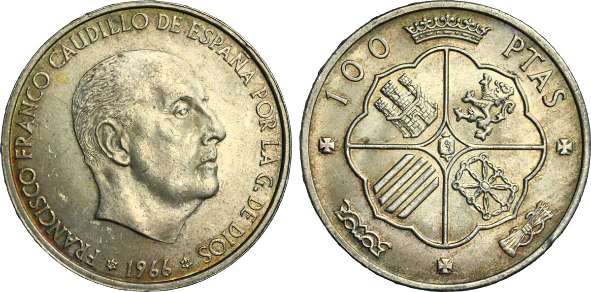 100 Pesetas à l'effigie de Francisco Franco, 1966